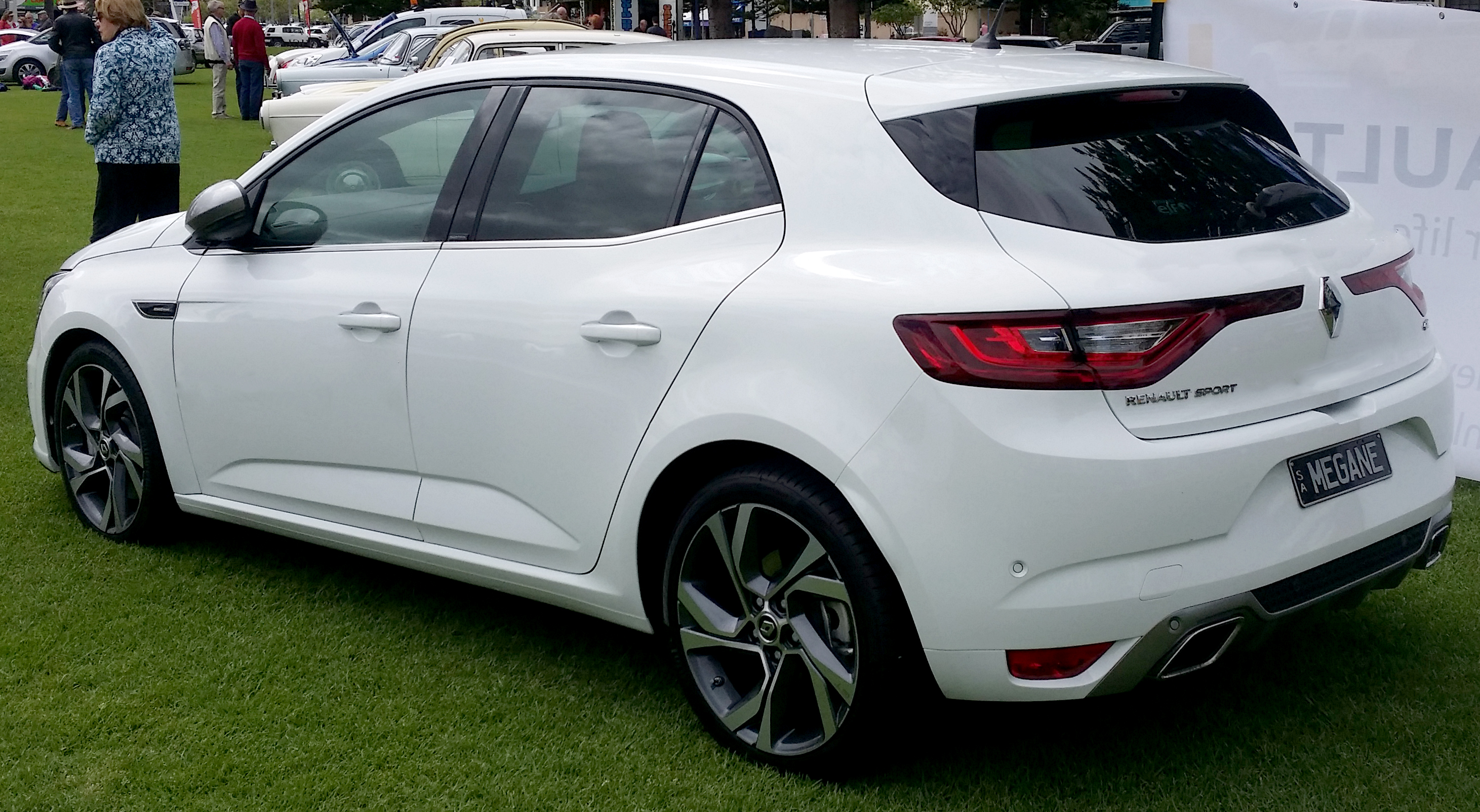 2016 Renault Megané (BFB) GT hatchback. Photographed in South Australia, Australia.